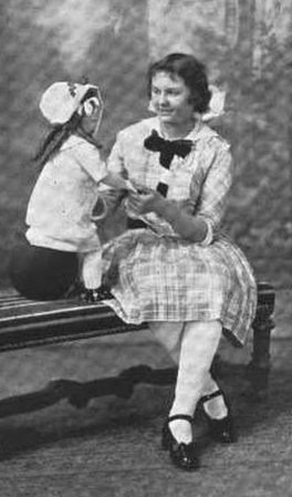 Winifred Sackville Stoner Jr., from a 1915 publication. A white girl with dark hair, in a short plaid dress and hair bow, seated on a bench, playing with a doll.